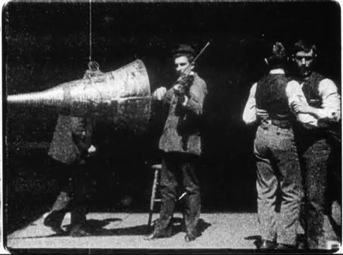 Dickson Experimental Sound Film (1894/95) William Dickson playing violin into acoustic phonograph recording horn as two men dance. (A fourth man, partially obscured, is visible walking behind the recording horn.)